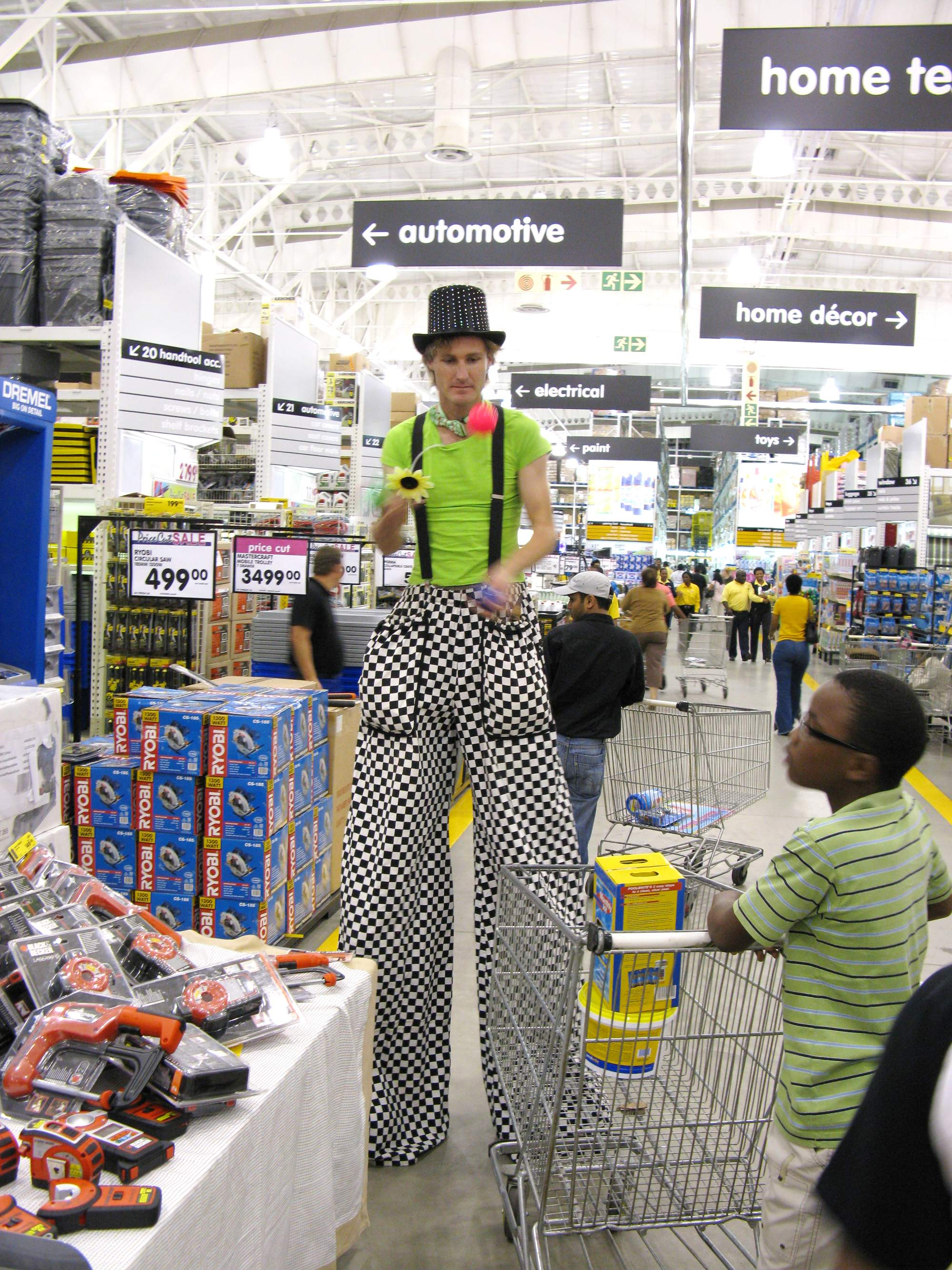 A juggling clown on stilts entertaining children at a Makro store.